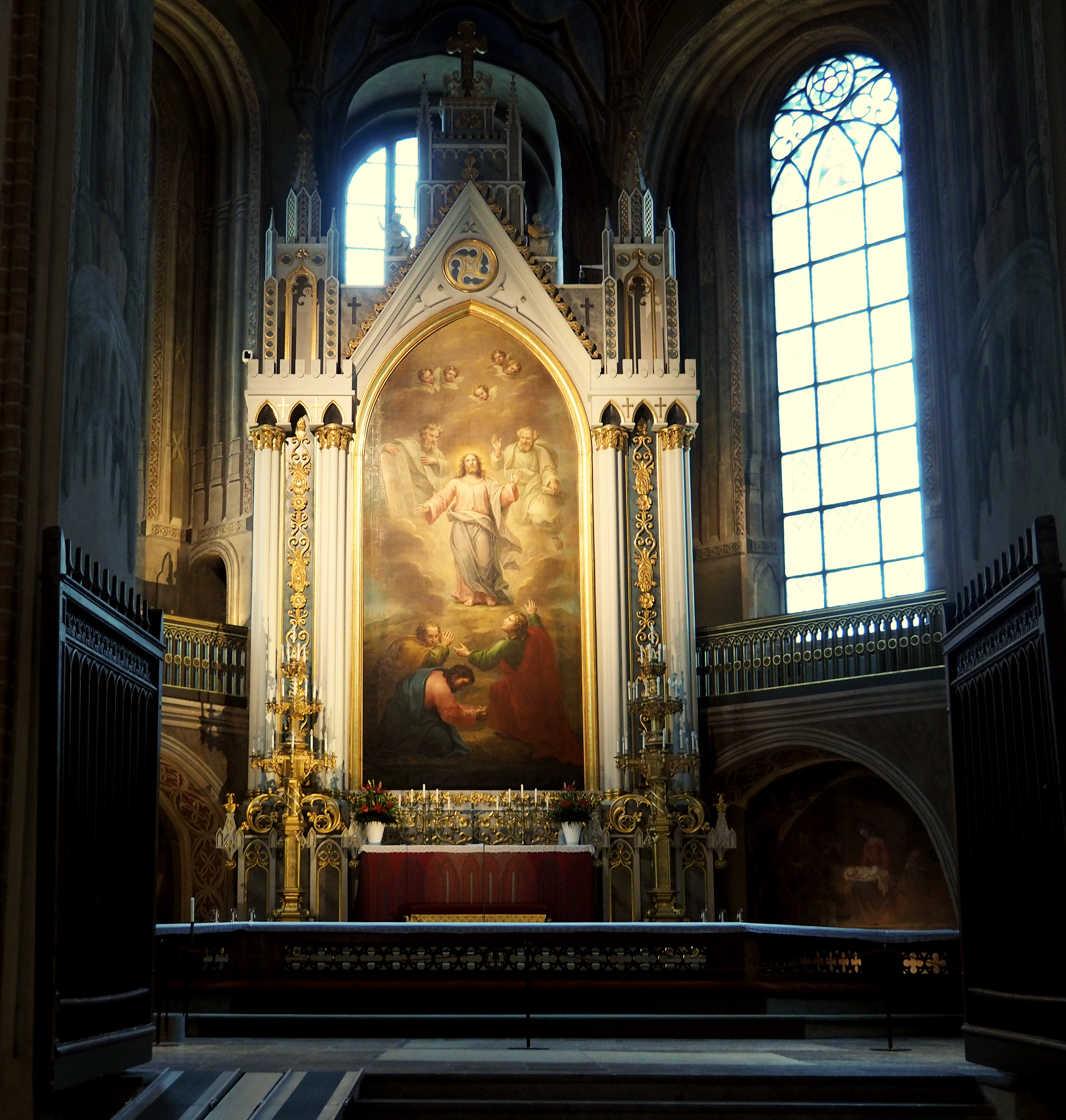 Altar piece, by the Swedish artist Fredrik Westin anno 1836, in Turku Cathedral, Finland.